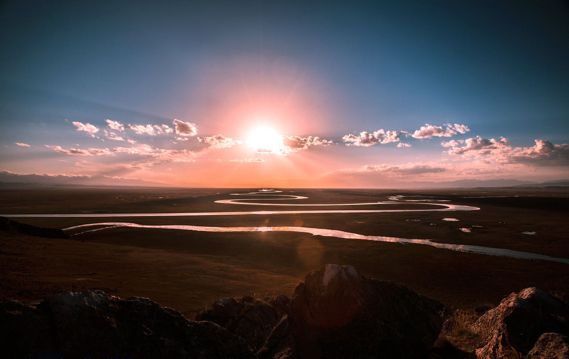 Sunrise over the North American prairies